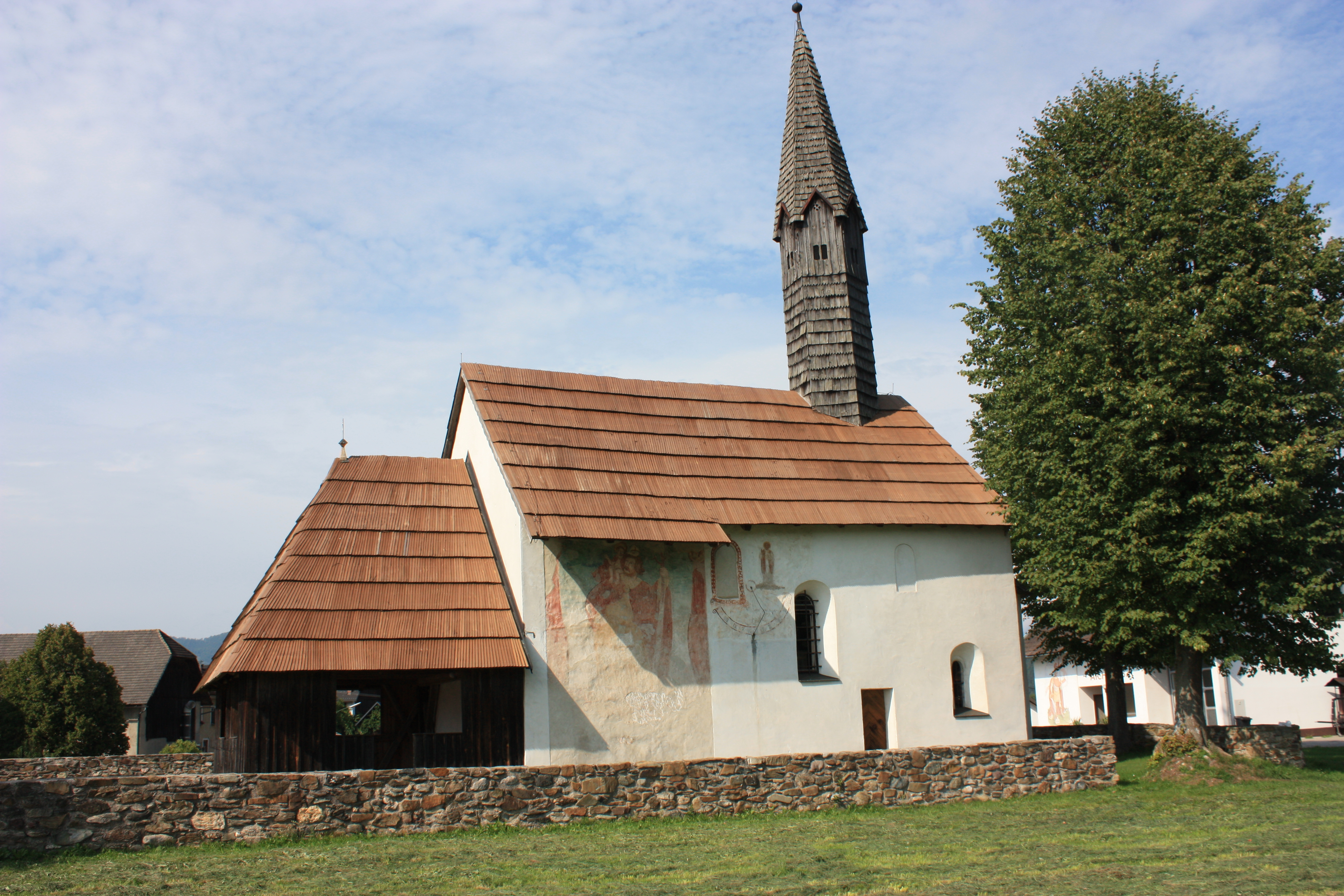 Subsidiary church "Saint Sebasitian" Locality: Aich/Dob Community:Bleiburg